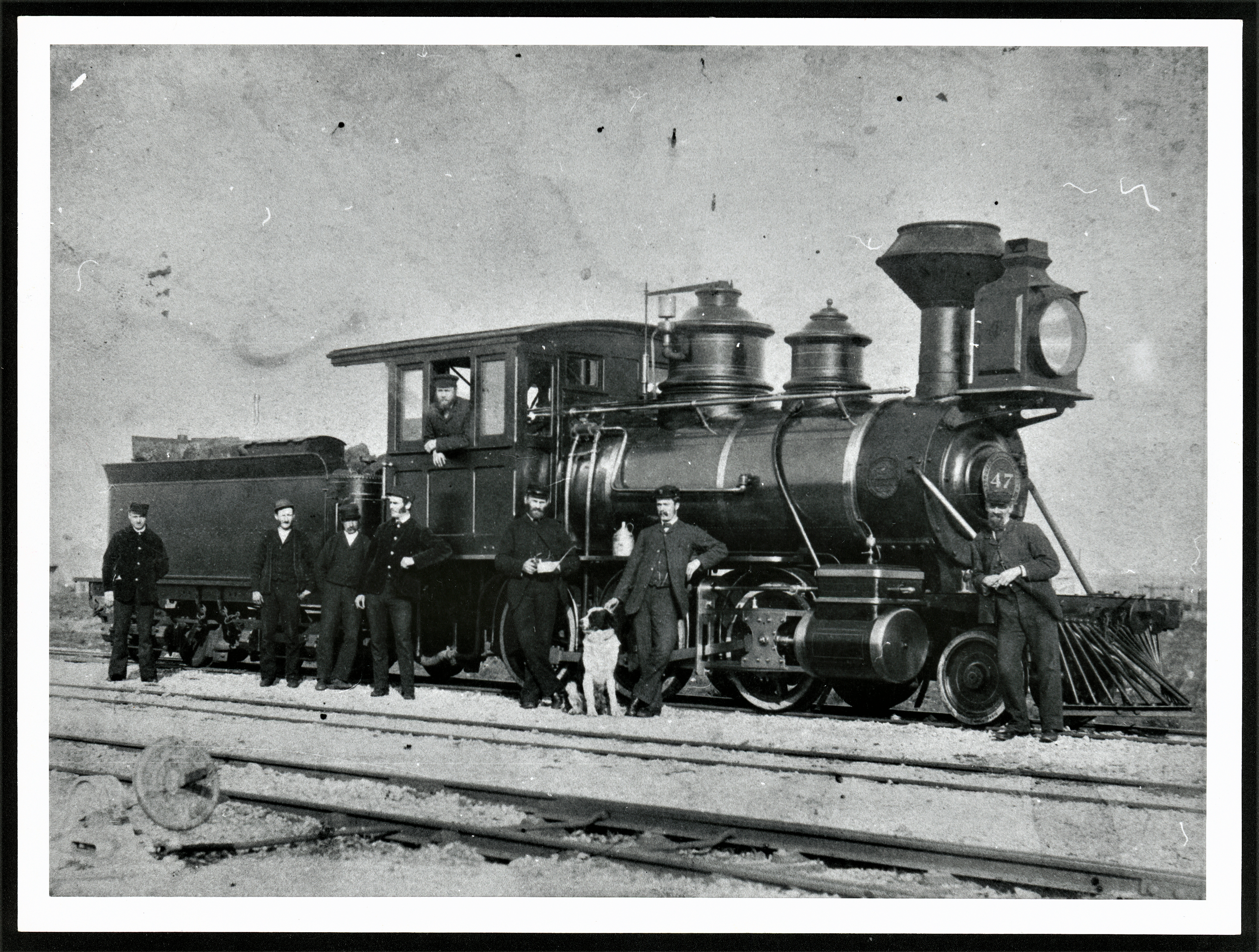 South Australian Railways 3'6" Narrow Gauge X Class Locomotive No. 47 with crew at unidentified location. Date: 1882 - 1904? State Library of South Australia B 21259.